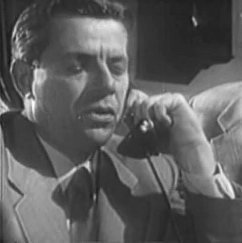 Richard Rober in Port of New York (cropped screenshot)